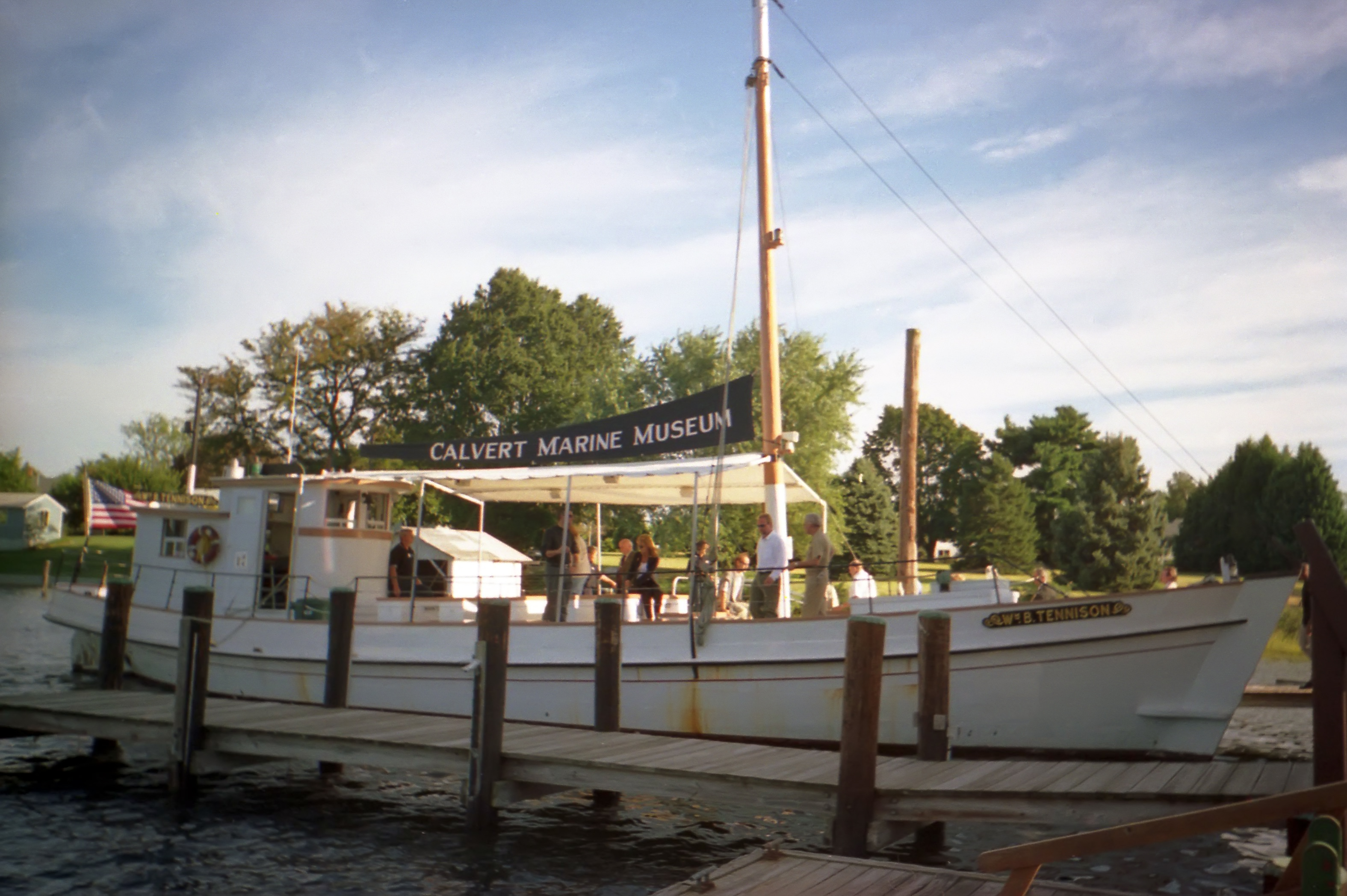 Photo taken in 2003